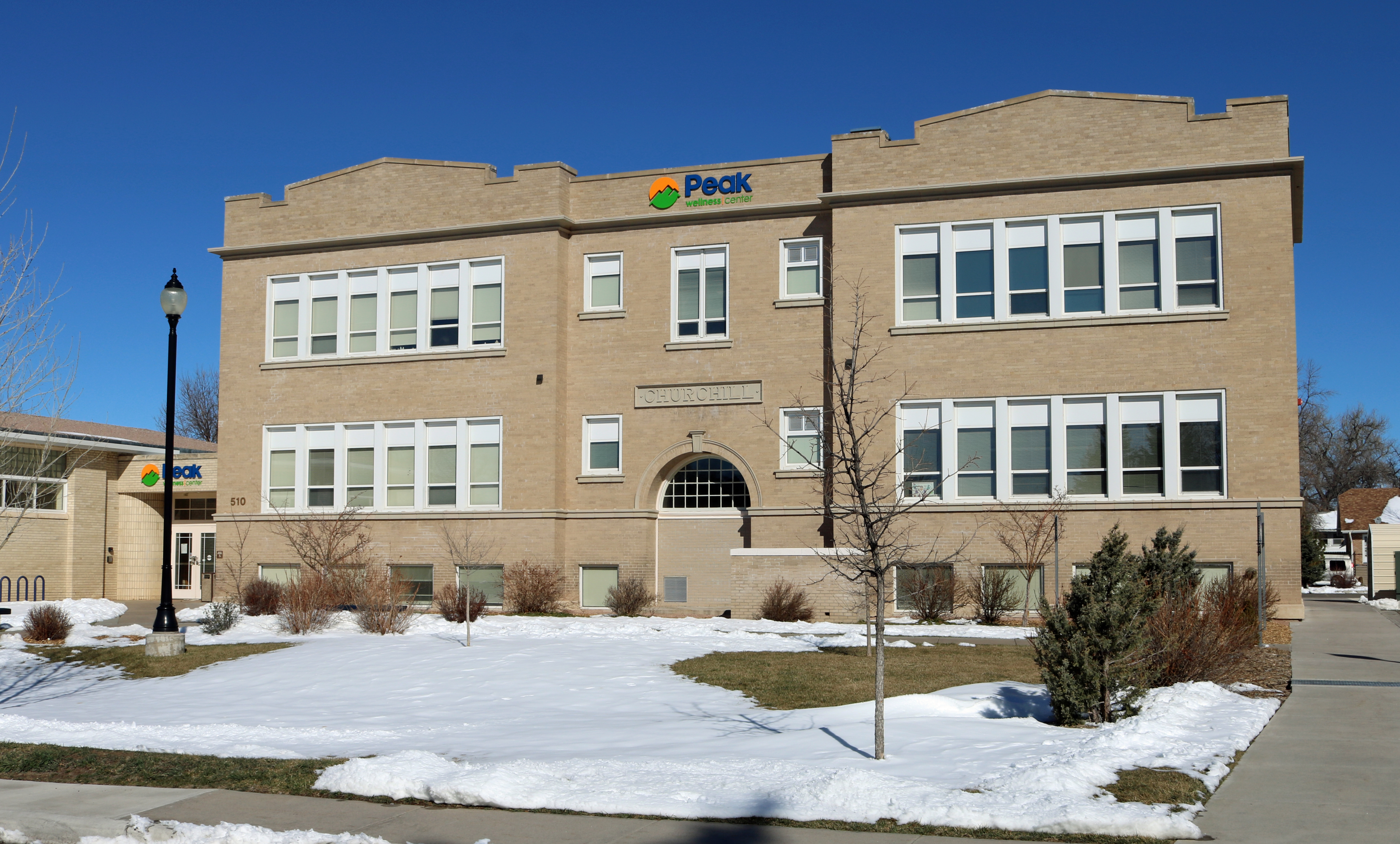 The Churchill Public School, located at 510 West 29th Street in Cheyenne, Wyoming. The property is listed on the National Register of Historic Places.